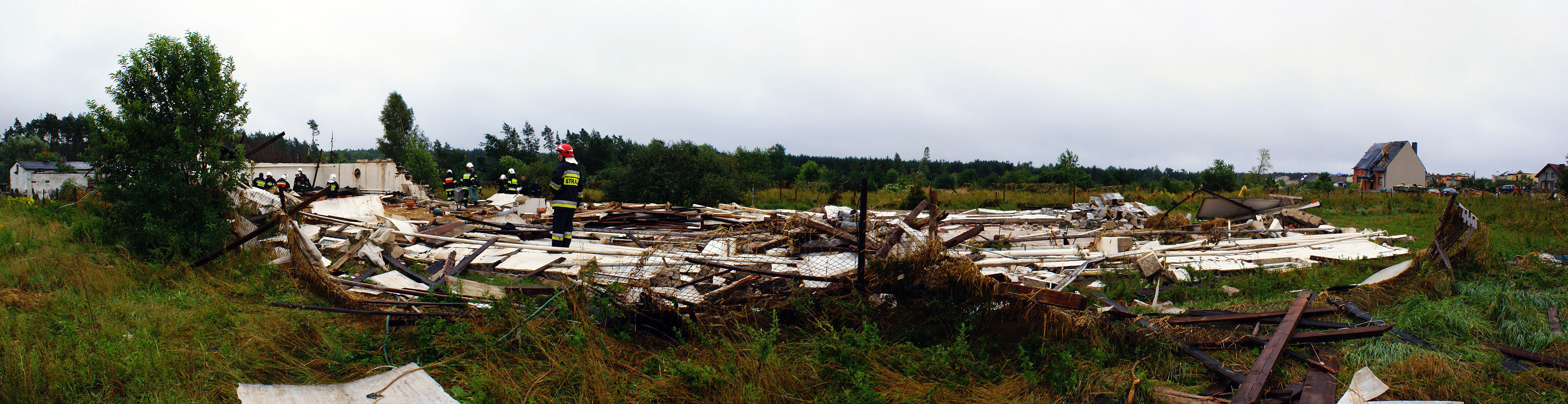 Destructions after tornado F1 Rusinowice/Poland, August 2008